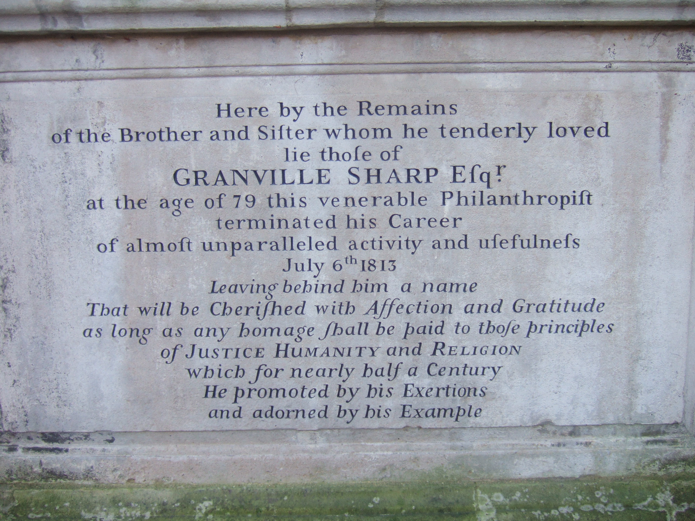 Inscription on the tomb of Granville Sharp at All Saints Church, Fulham, London